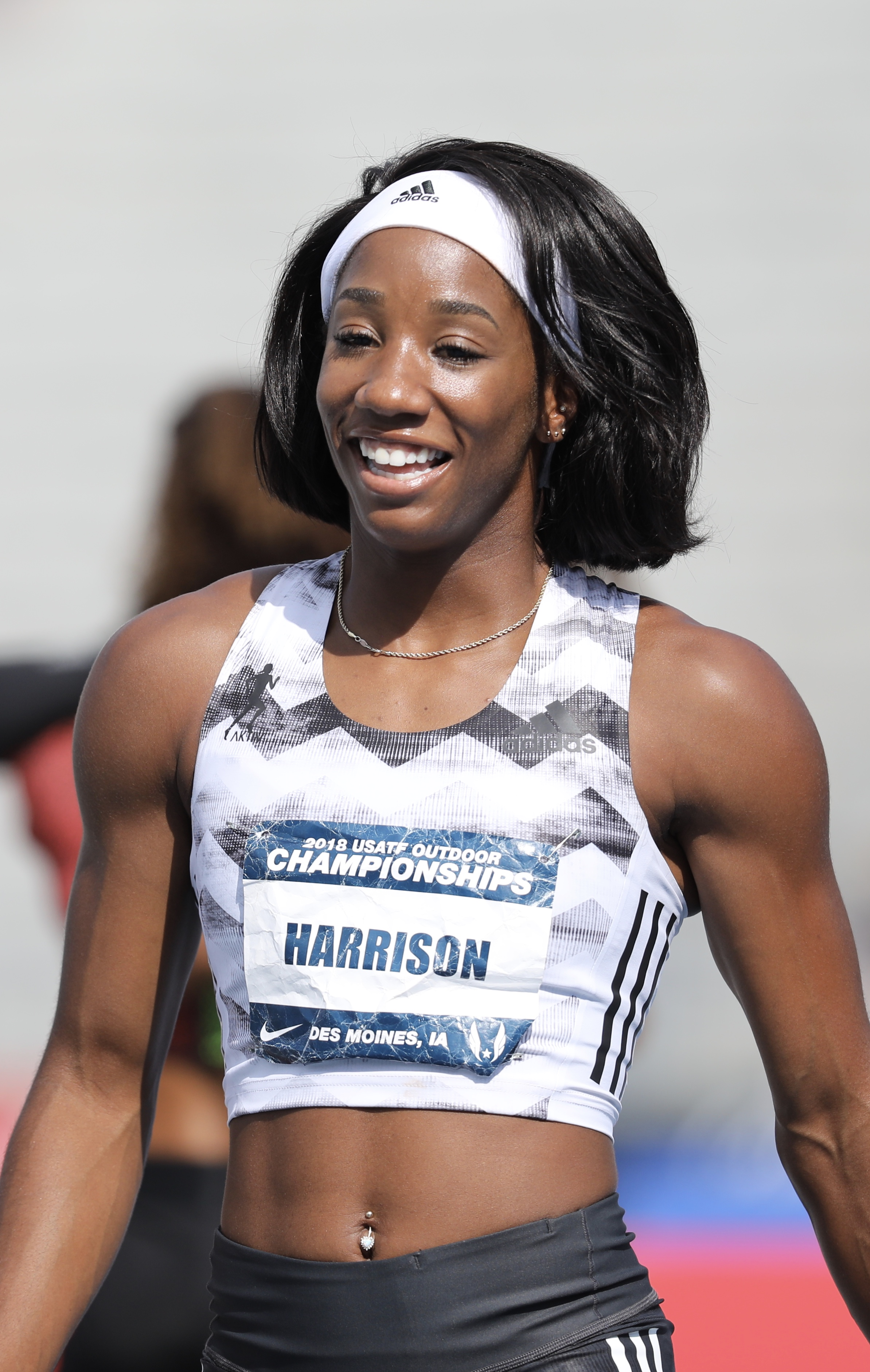 Kendra Harrison at USTAF in 2018